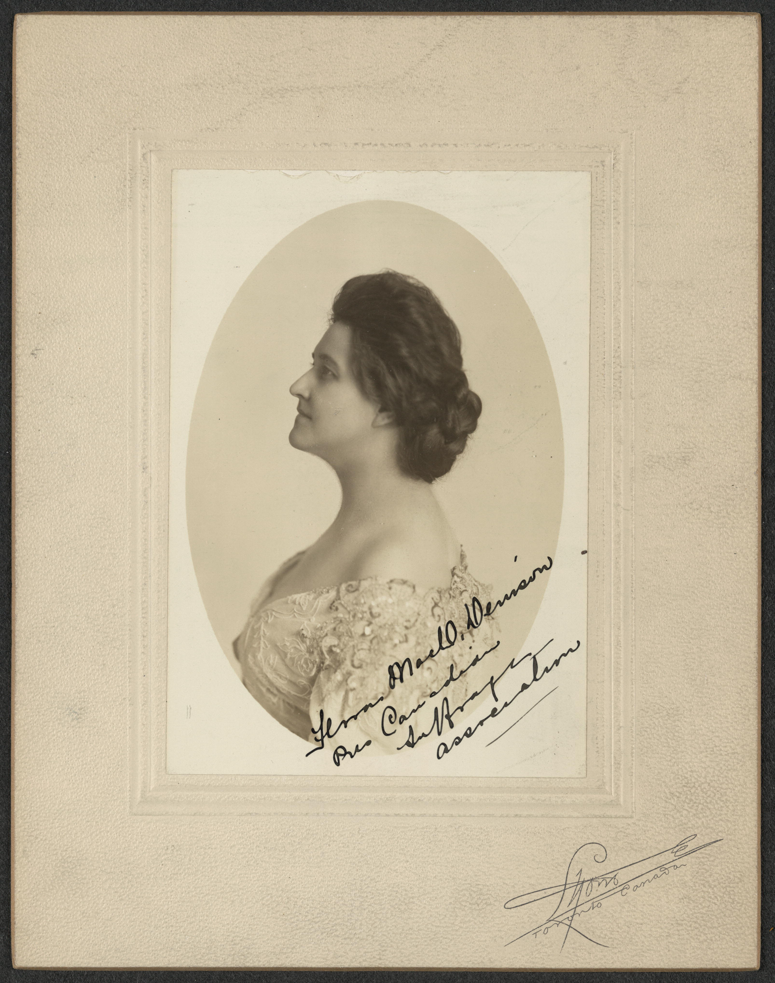 Summary: Formal portrait, head and shoulders, left profile, Flora MacDonald Denison, president, Canadian Suffrage Association, wearing off-the-shoulder dress. According to an essay by Deborah Graham in the 1998 Canadian Encyclopedia, Denison ran a successful Toronto dressmaking business and became active in suffrage work in 1906 and was forced to resign as president of the Canadian Suffrage Association "because of her support for the English militant suffragettes."